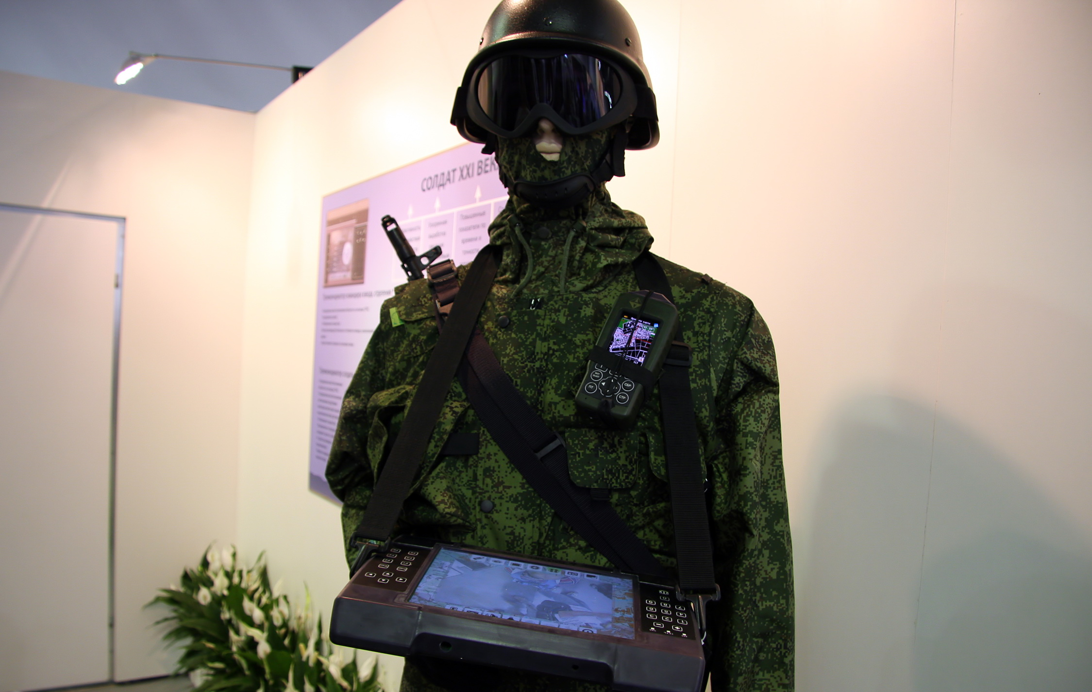 Navigation and control system for unit commander